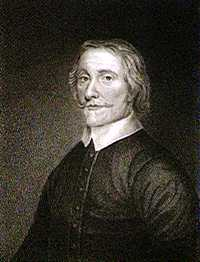 Francis Annesley, 1st Viscount Valentia (1583-1660). Viscount Valentia is a title in the Peerage of Ireland. It has been created twice. The first creation came in 1621 for Henry Power. A year later, his kinsman Sir Francis Annesley, 1st Baronet, of Newport Pagnell, was given a "reversionary grant" of the Viscountcy, which stated that on Power's death Annesley would be created Viscount Valentia.